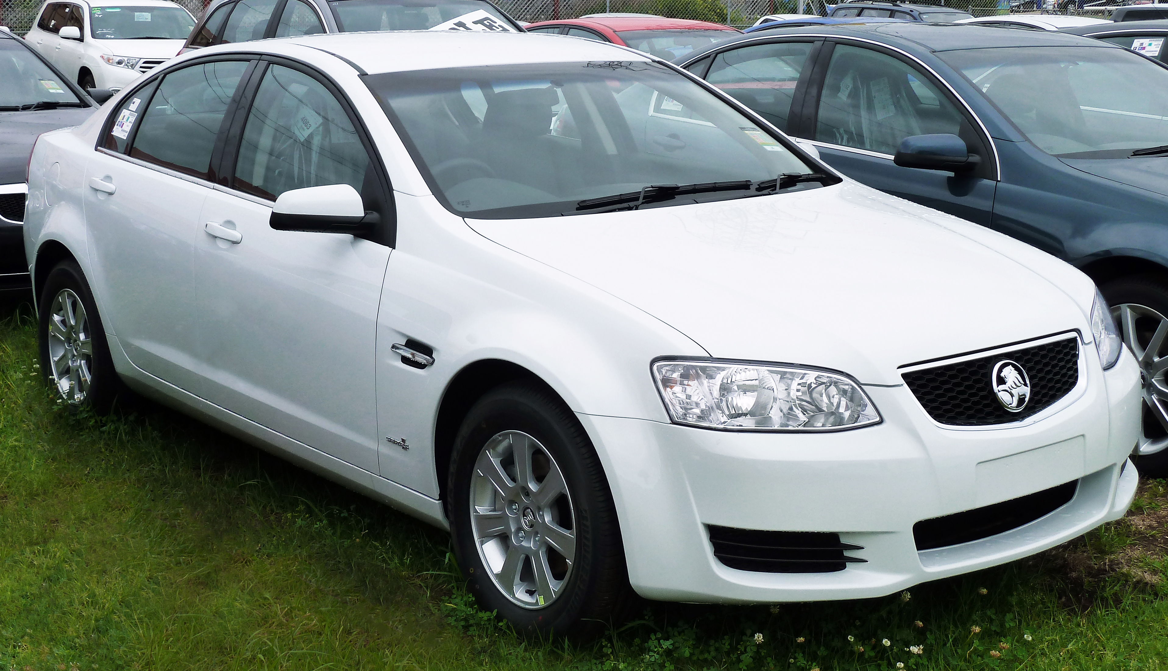 2010 Holden Commodore (VE II MY11) Omega sedan. Photographed at Suttons Holden, Chullora, New South Wales, Australia.